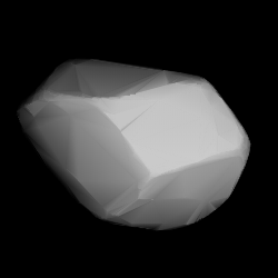 3D convex shape model of 1552 Bessel, computed using light curve inversion techniques. J. Hanuš, J. Ďurech, M. Brož, B. D. Warner (June 2011). "A study of asteroid pole-latitude distribution based on an extended set of shape models derived by the lightcurve inversion method". Astronomy and Astrophysics 530: A134. ISSN 0004-6361. arXiv